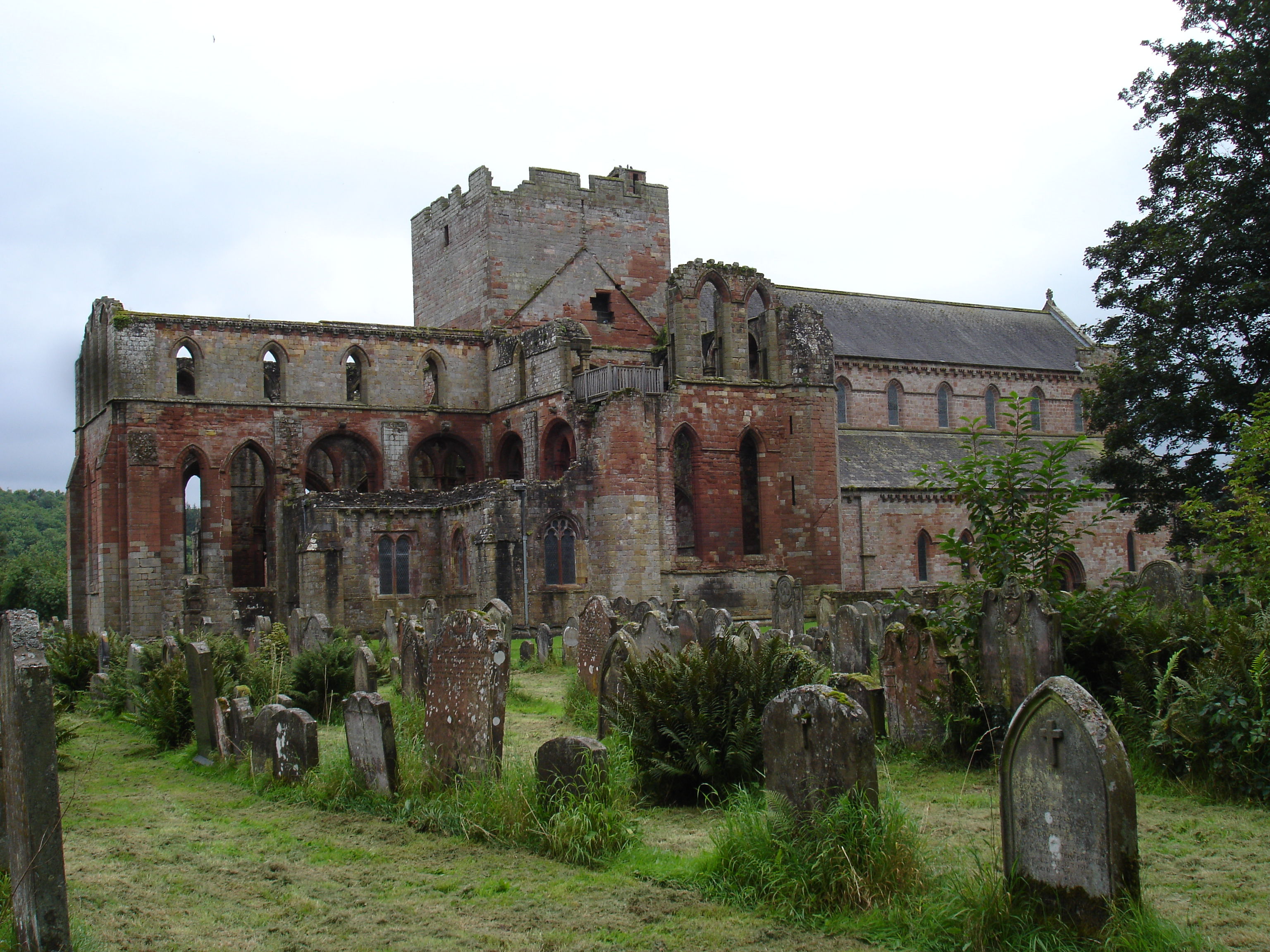 Photograph of Lanercost Priory, Cumbria, England